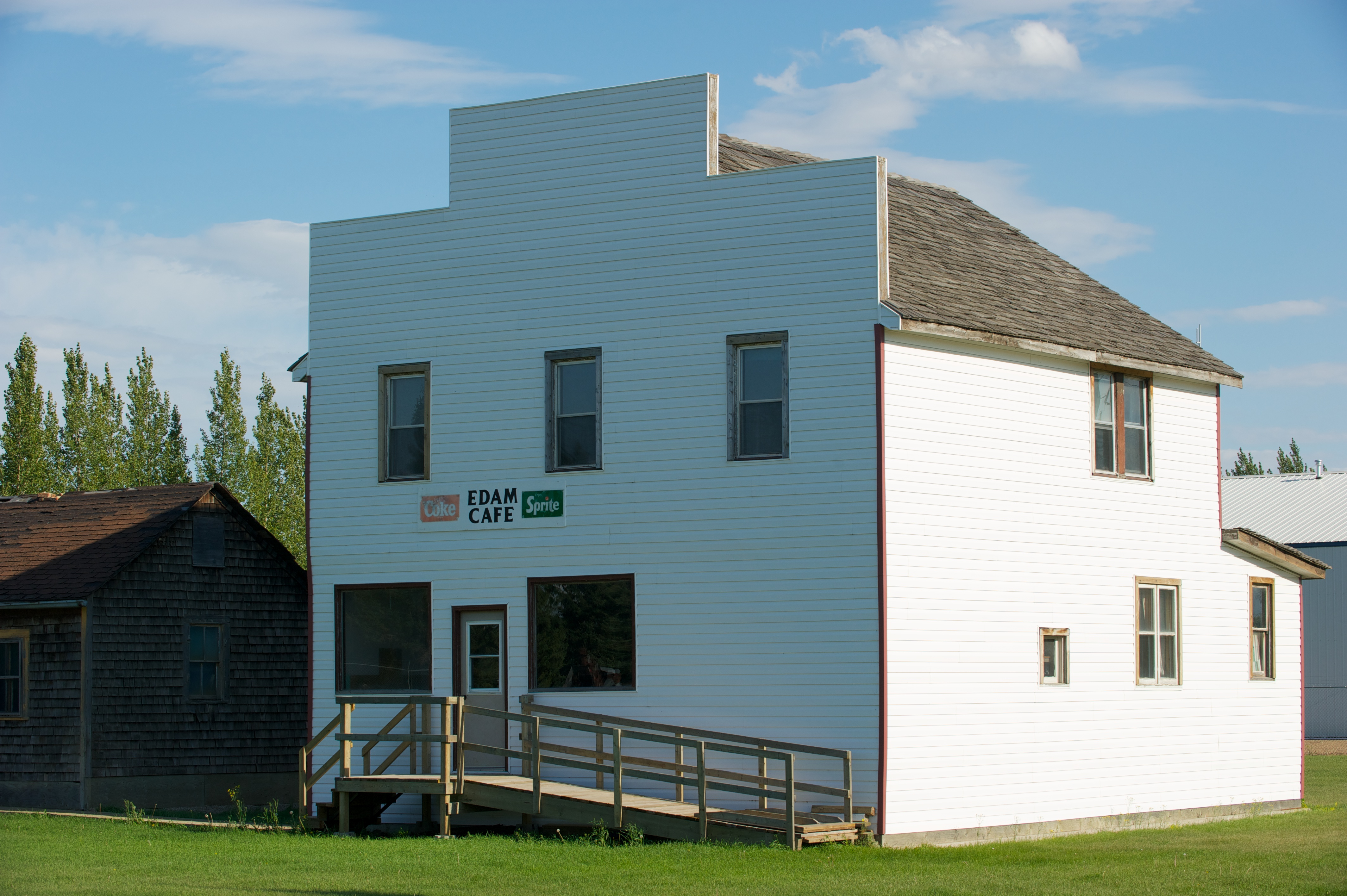 Edam Café